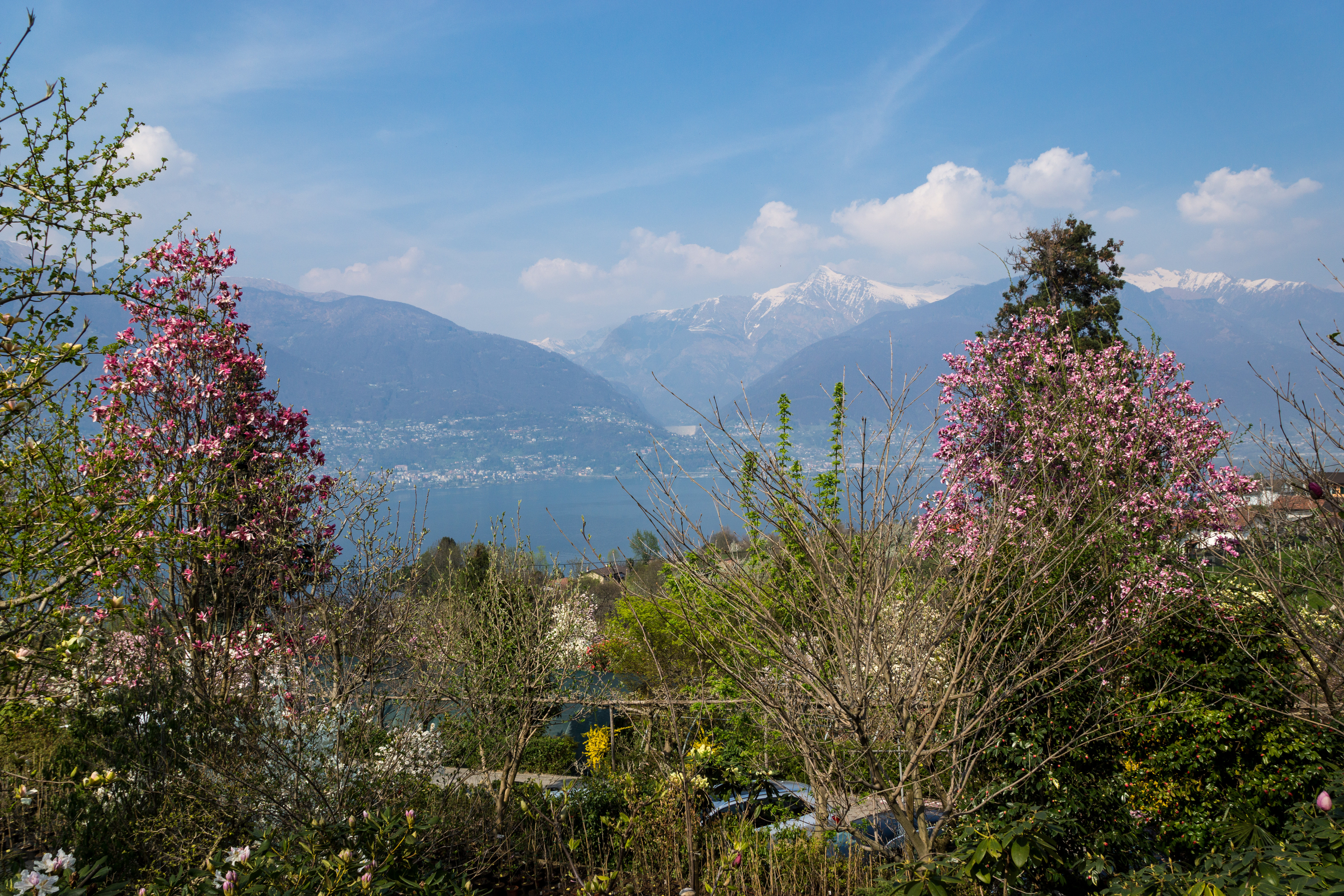 Botanical garden of Vivaio Eisenhut